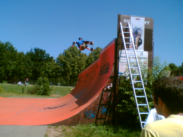 a skater doing a trick jump in a half-pipe